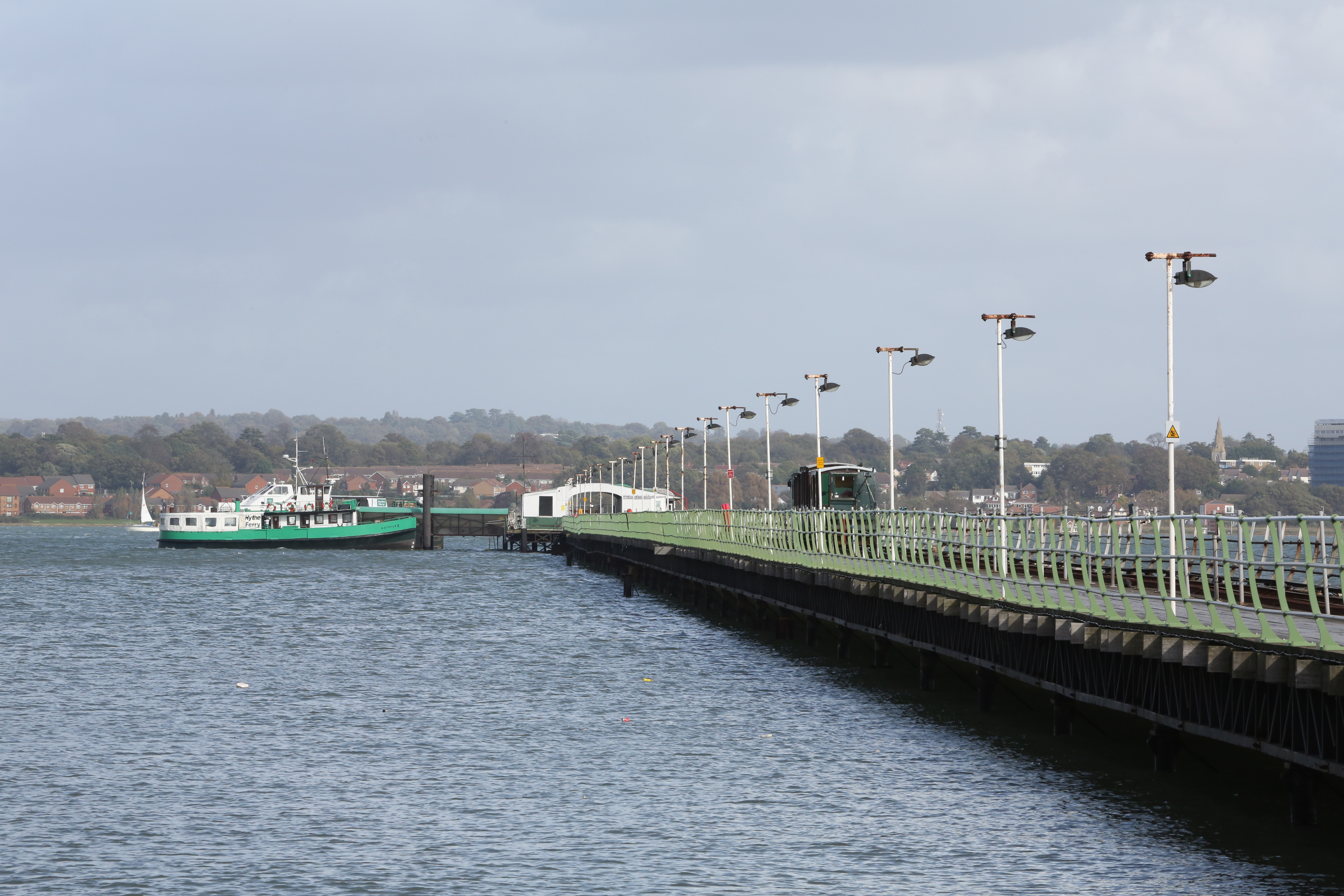 Photo of Hythe pier with the ferry docked and the train in operation